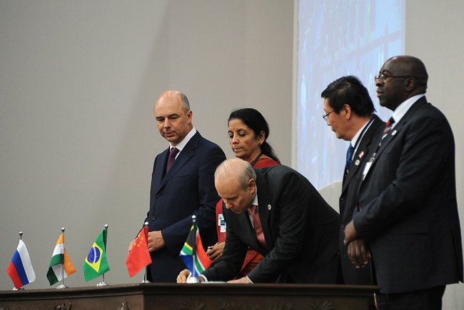 Signing of documents at 6th BRICS Summit